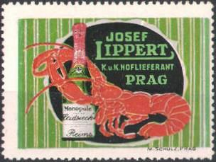 Josef Lippert